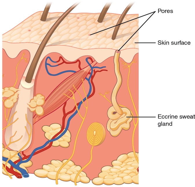 Illustration from Anatomy & Physiology, Connexions Web site. Jun 19, 2013.